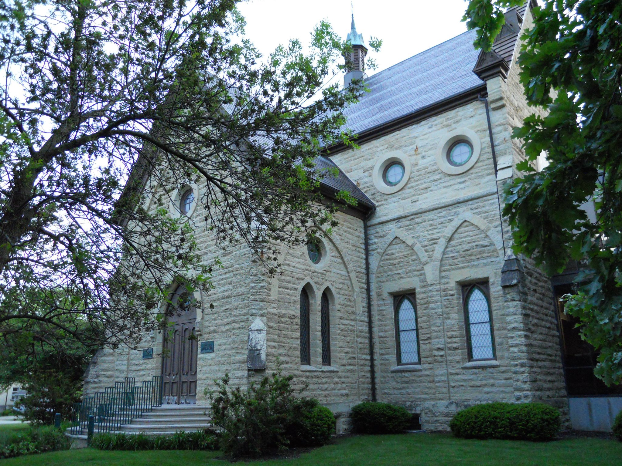 Logan Anthropology Museum at Beloit College.